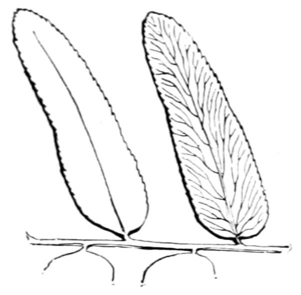 Royal Fern. Osmunda regalis.